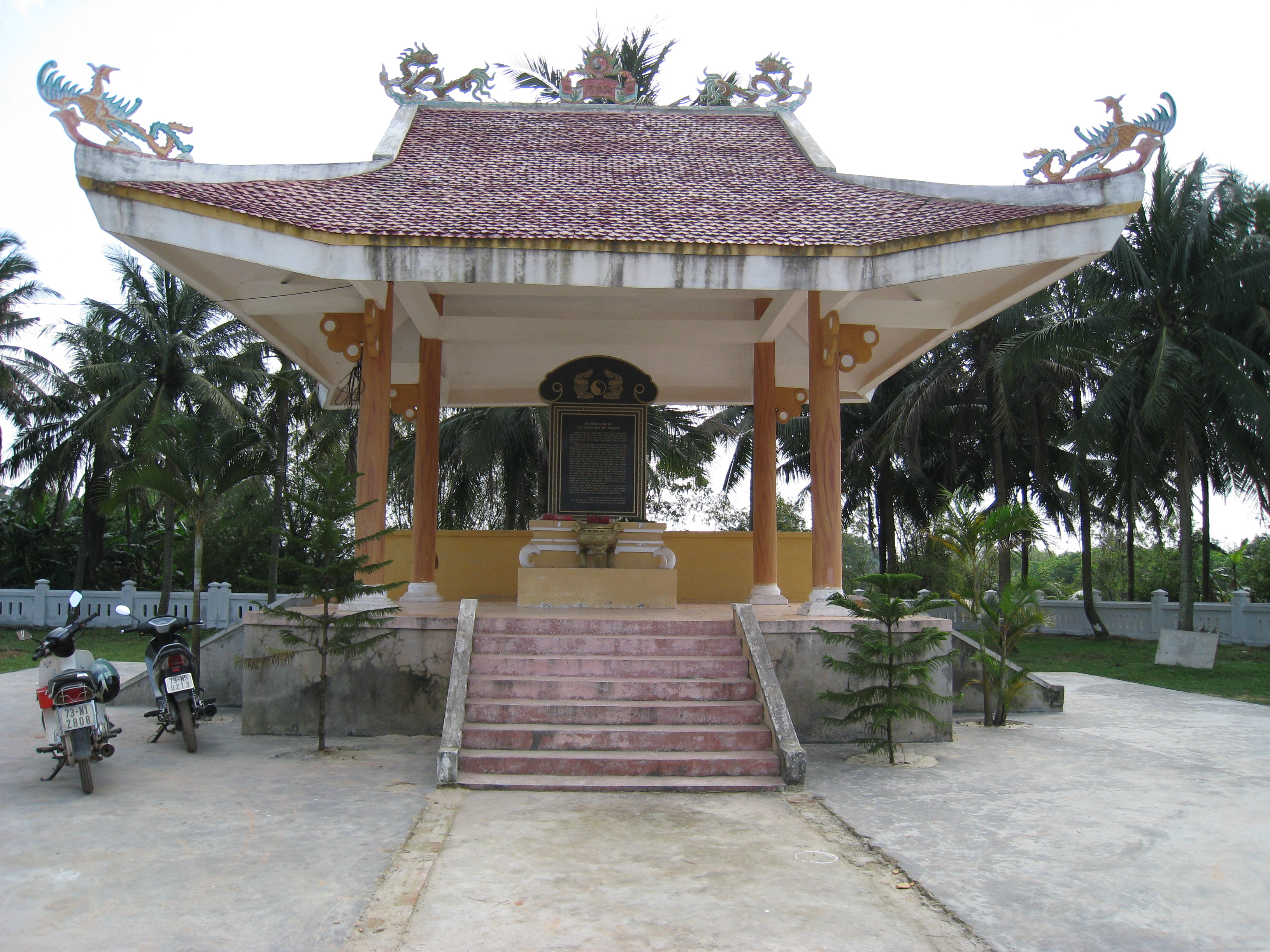 My Trach Massacre Memorial in Quang Binh, Vietnam